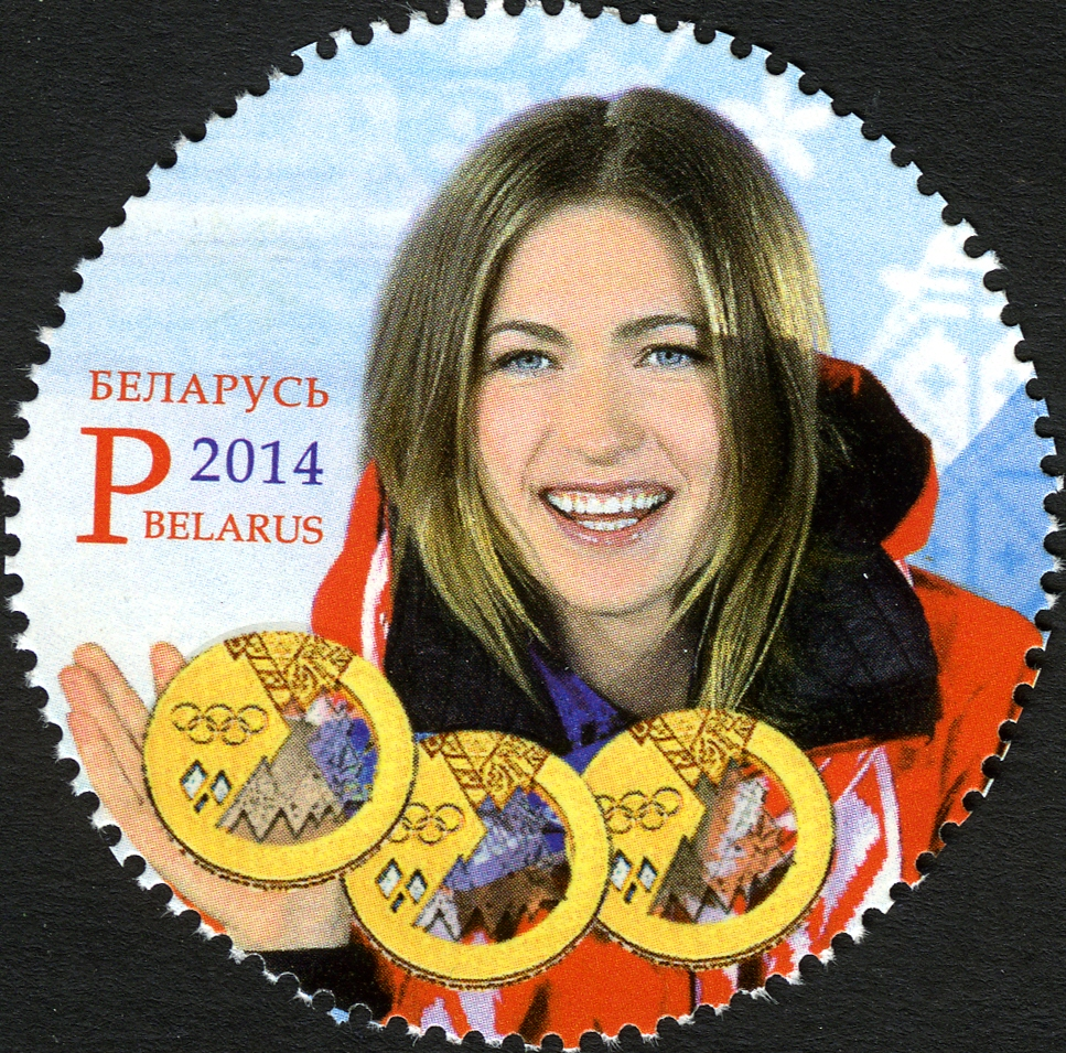 Medal Winners of the XXII olympic Winter Games in Sochi - Darya Domracheva